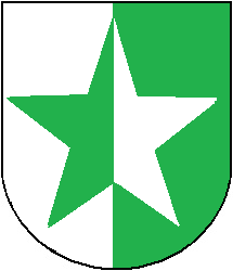 Coat of arms of the region and district of Surselva, Canton of Grisons, Switzerland